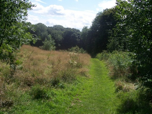 The Round Walk, Graves Park. Part of the 10 mile long Sheffield Round Walk passes through Graves Park.